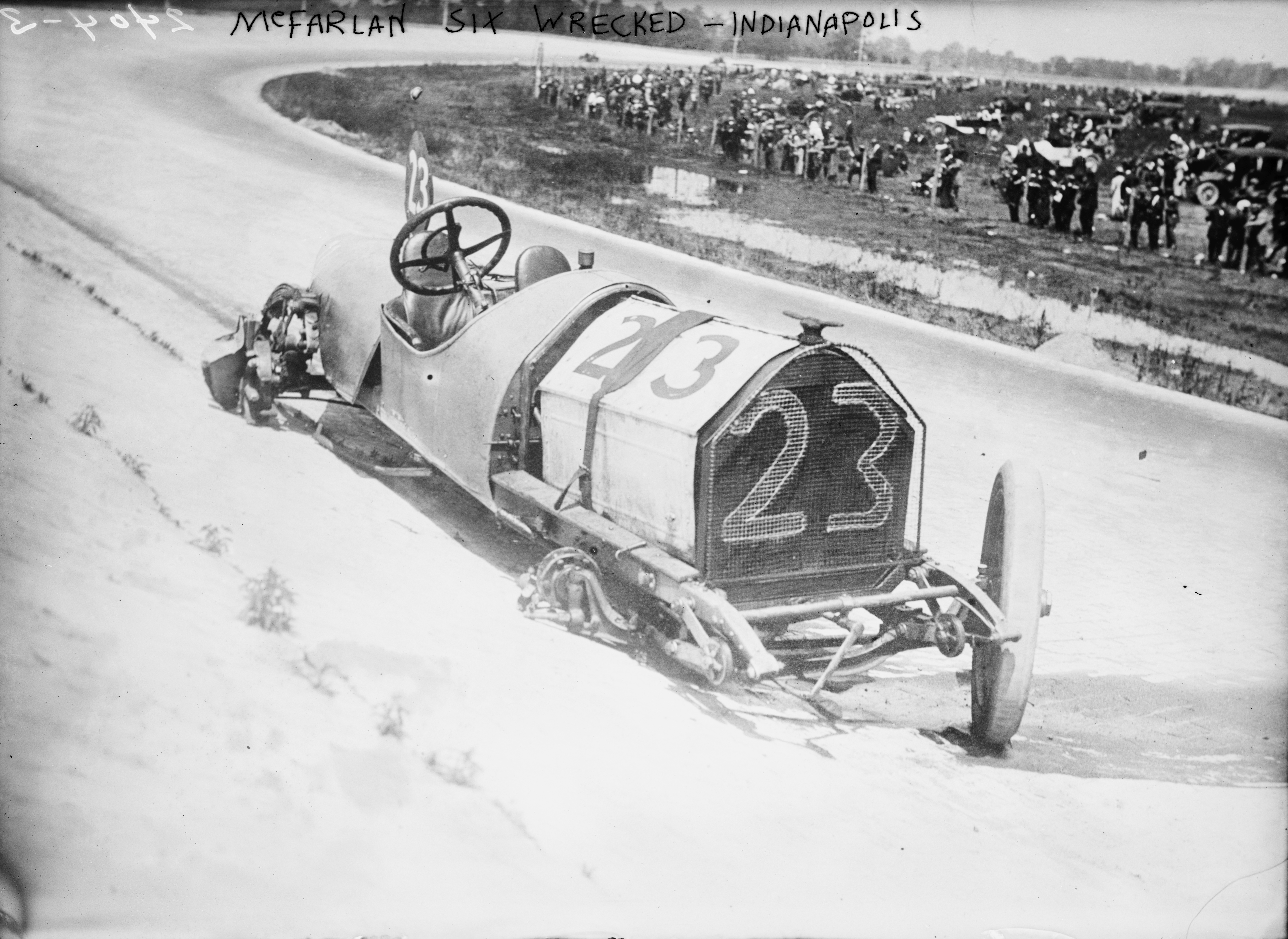 This is a photo of driver Mel Marquette's wrecked McFarlan racing car at the en:1912 Indianapolis 500. Marquette finished 19 in the race, two places ahead of Eddie Rickenbacker, who was put out of the race with a broken intake valve [1]. TITLE: McFarlan 6 wrecked - Indianapolis CALL NUMBER: LC-B2- 2404-3[P&P] REPRODUCTION NUMBER: LC-DIG-ggbain-10443 (digital file from original neg.) No known restrictions on publication. MEDIUM: 1 negative : glass ; 5 x 7 in. or smaller. CREATED/PUBLISHED: [no date recorded on caption card](1912) NOTES: Forms part of: George Grantham Bain Collection (Library of Congress). Title from unverified data on caption card or negative sleeve. TOPICS: Indianapolis FORMAT: Glass negatives. REPOSITORY: Library of Congress Prints and Photographs Division Washington, D.C. 20540 USA DIGITAL ID: (digital file from original neg.) ggbain 10443 [2] CARD #: ggb2004010443